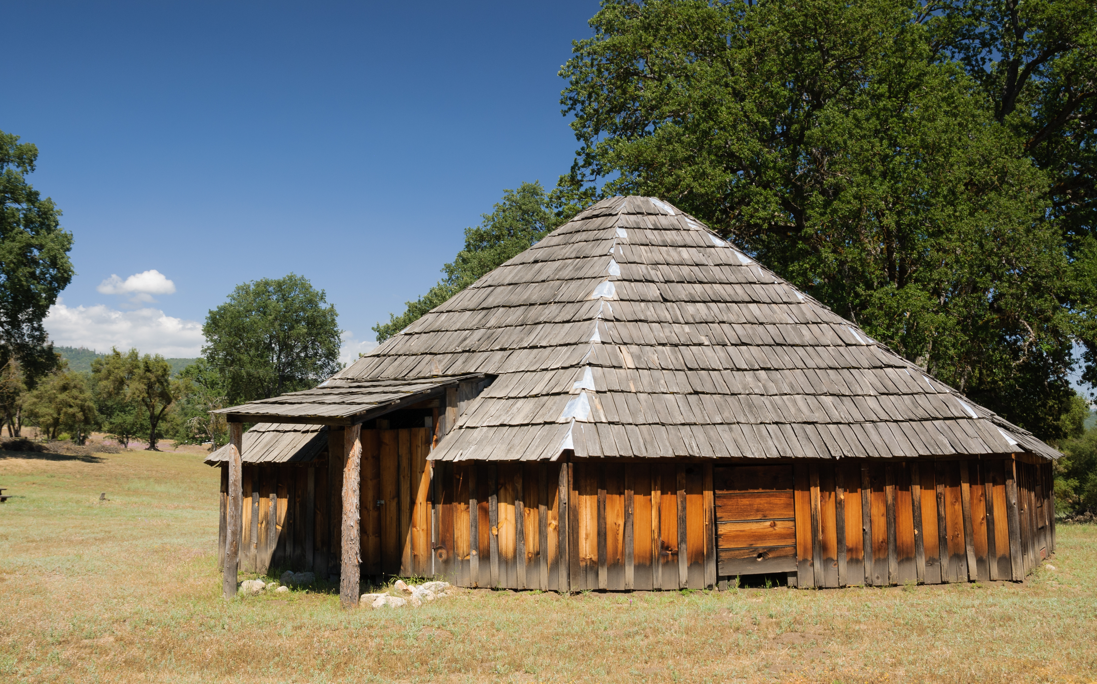 Oaks surround the historic round house in the Western Sierra Nevada Foothills. Wassama Round House State Historic Park, Ahwahnee, California, USA.